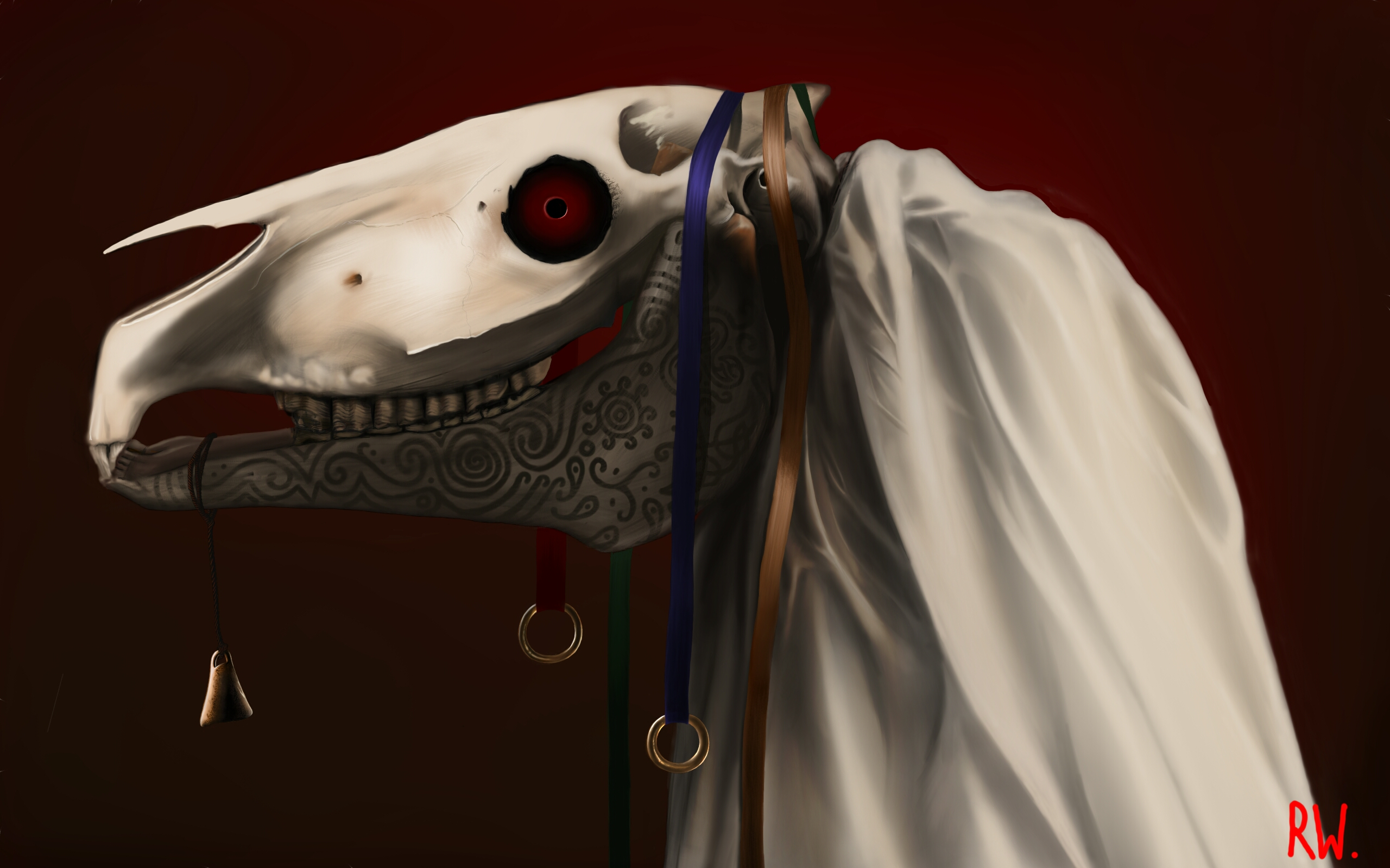 Mari Lwyd by Rhŷn Williams